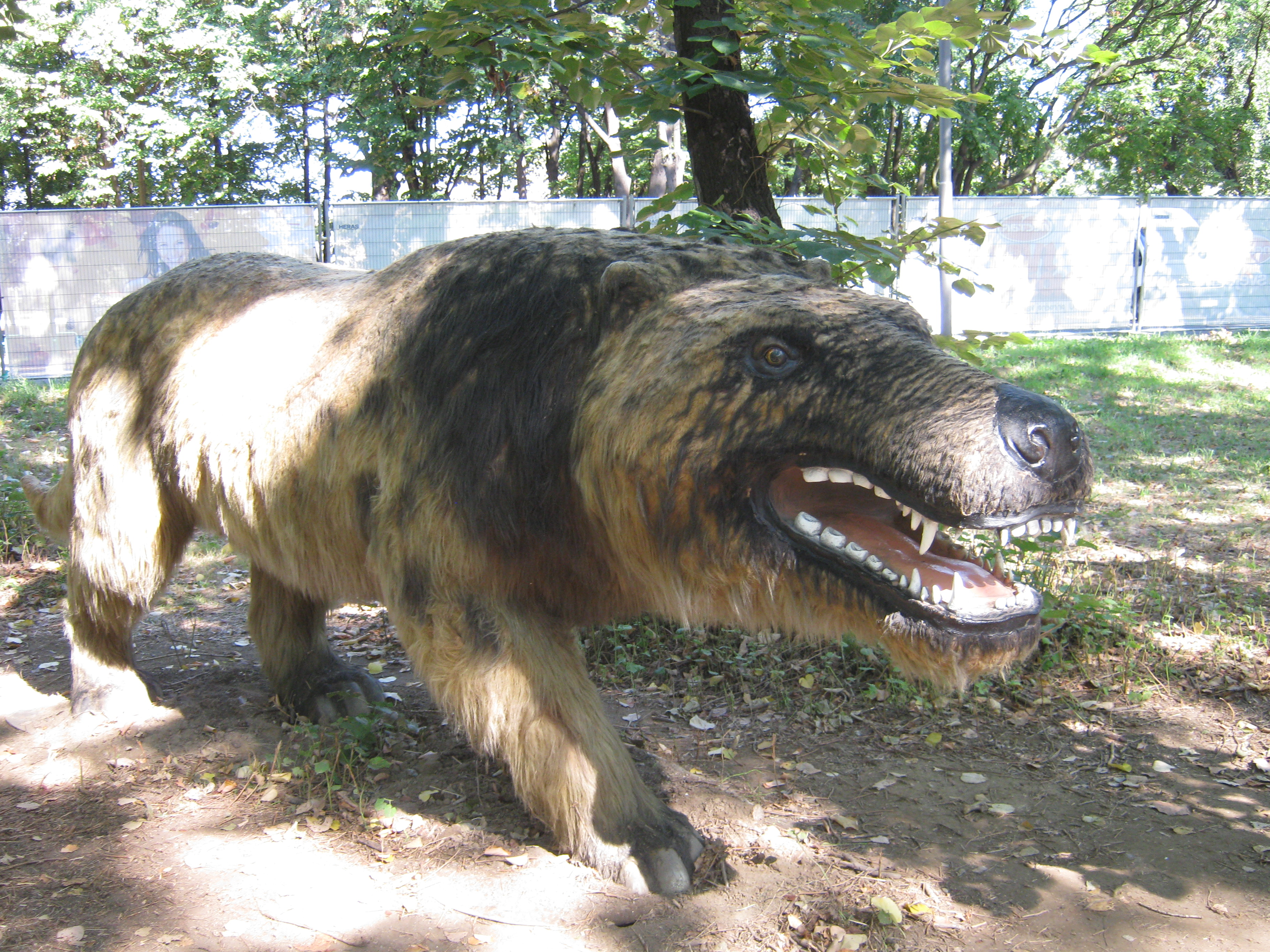 Andrewsarchus model